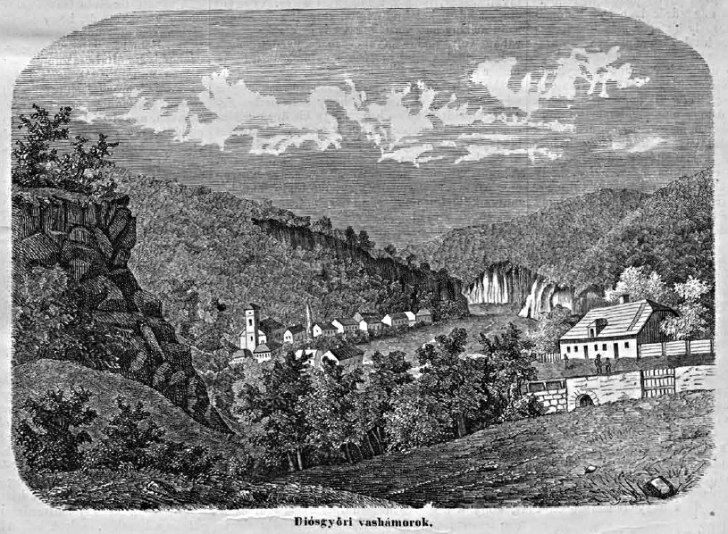 Old metallurgical factory in Ómassa. Drawing in the Vasárnapi Újság (Sunday News) 1864.01.03.